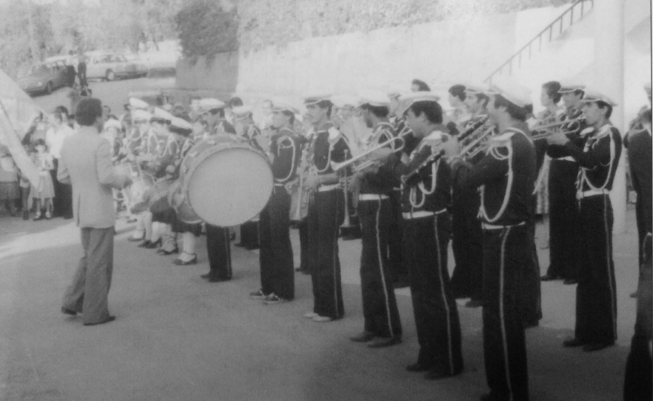 Abdo Yamine « Zakrit between yesterday and today »